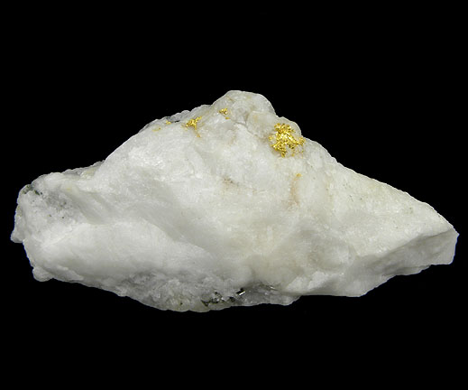 Gold, Chlorite, Quartz Locality: Idarado Mine, Telluride, Ouray District (Uncompahgre District), San Miguel County, Colorado, USA (Locality at ) Size: 6.5 x 3.0 x 2.7 cm. A fine and historic specimen of Gold from the Idarado mine. The platy crystals have a lustrous, bright, metallic appearance, and stand out beautifully against the snow-white Quartz matrix. Along the back "ridge" of the specimen, one can clearly see a patch of muted forest-green "Chlorite" crystals (most likely Clinochlore) which is highly indicative of the Idarado Mine. It was collected by Clancy Fleetwood (Brian Kosnar's great-grandfather) in 1946. The piece later became part of the famous Colorado mineral collection of Richard Kosnar, whose hand-painted label is on the bottom of the specimen. From the 650 Level, Tomboy Vein.